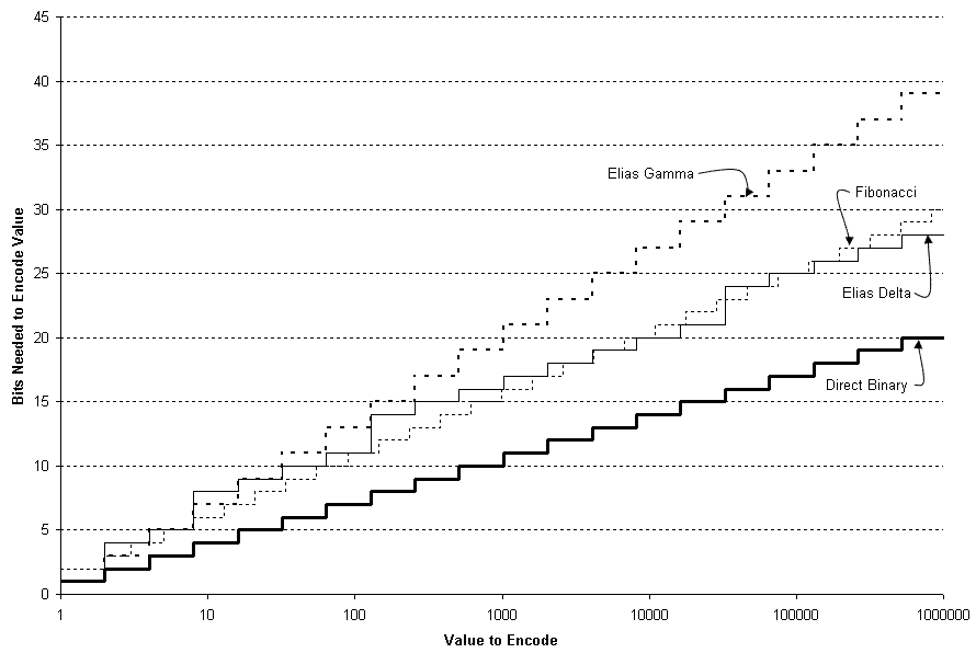 This image compares Fibonacci, Elias Gamma, and Elias Delta encoding schemes for bit usage. This image was creating using a C program I wrote to produce a table of encoding lengths for fibonacci, elias delta, and elias gamma integer encoding methods (binary encoding is also provided as a reference). The output was filtered through Excel to produce the image.